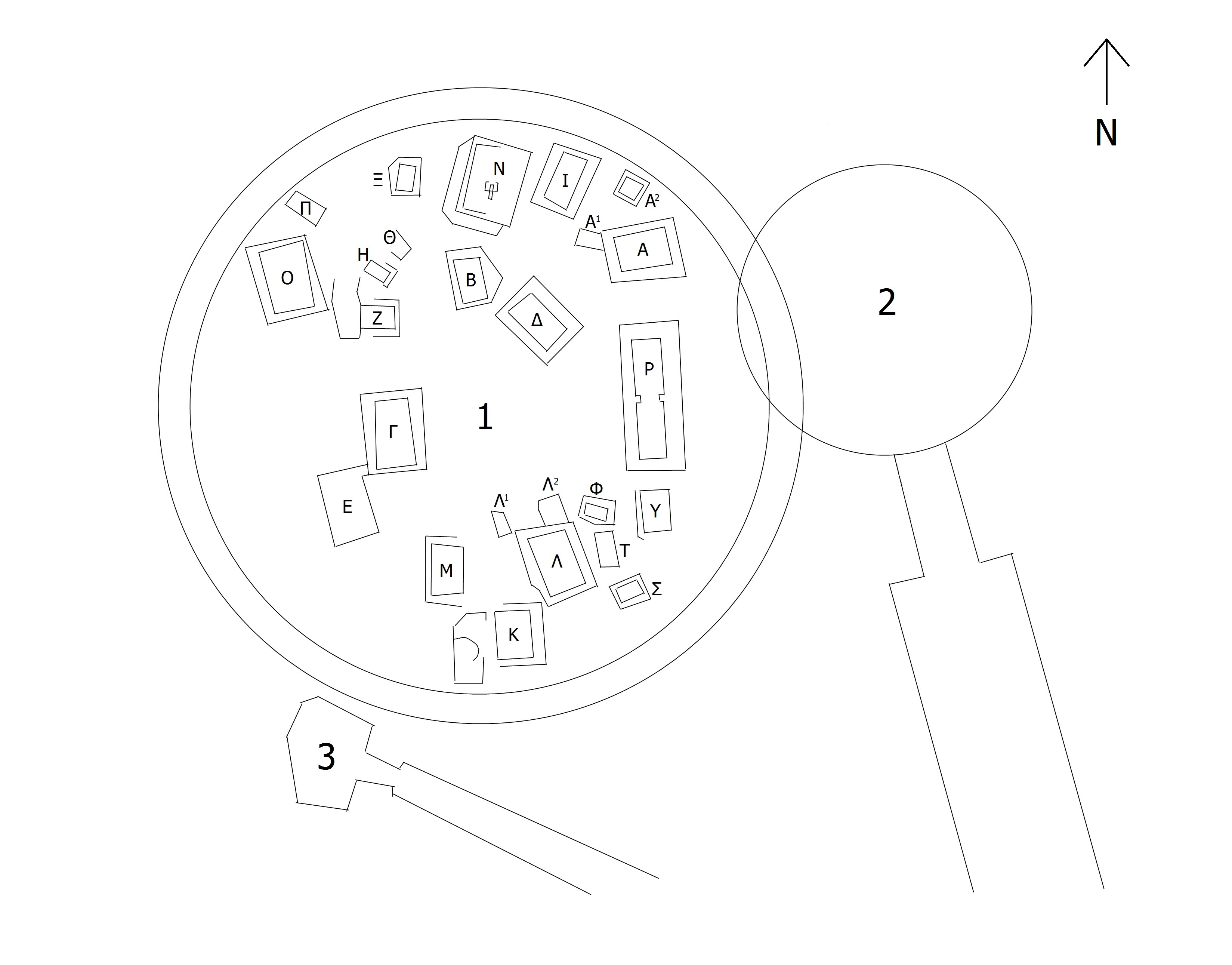 Mycenae: Plan of grave circle B: 1 = Grave circle B (The graves are named with greek letters.) 2 = Tomb of Clytemnestra 3 = Chamber grave outside of grave circle